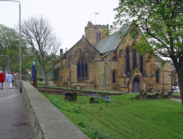 St Mary's C. of E., Scarborough The tower houses a fine ring of 10 bells, and the church is a strong supporter of Fair Trade.